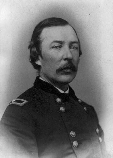 Joshua Thomas Owen, head-and-shoulders portrait, facing right, in uniform